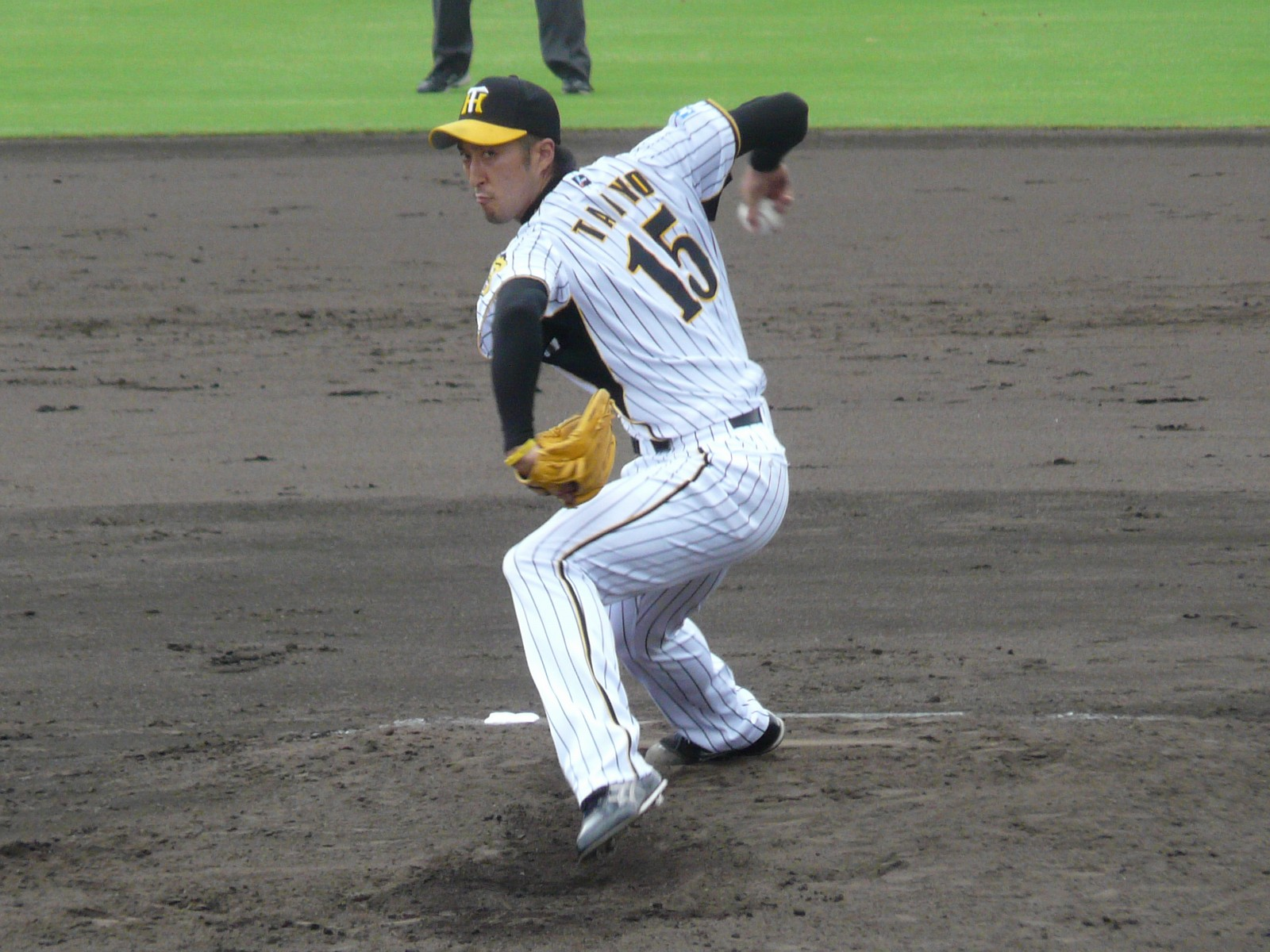 Taiyo Fujita, pitcher of the Hanshin Tigers, at Hanshin Naruohama Baseball Ground.